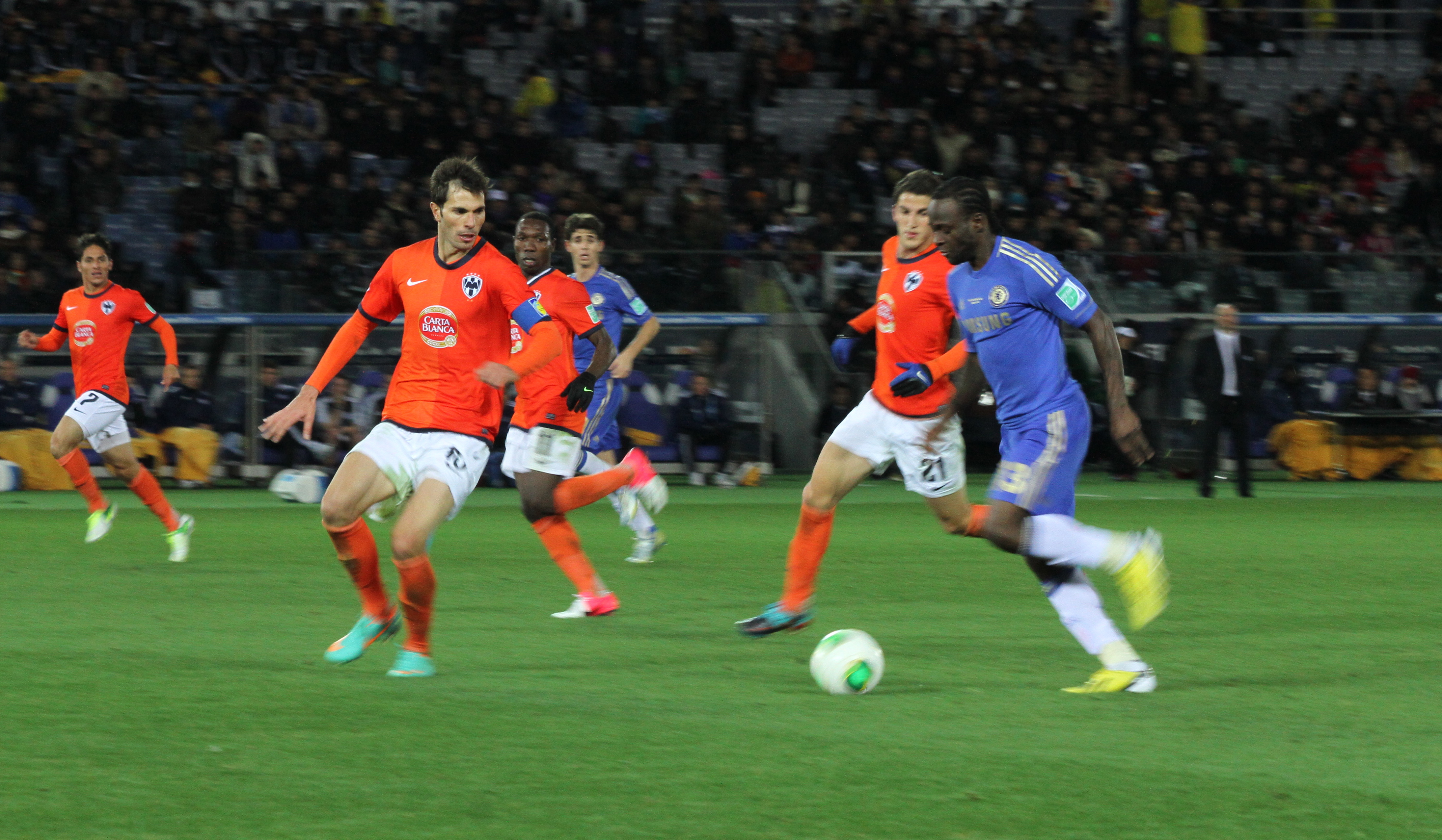 Jose Maria Basanta at 2012 Club World Cup.